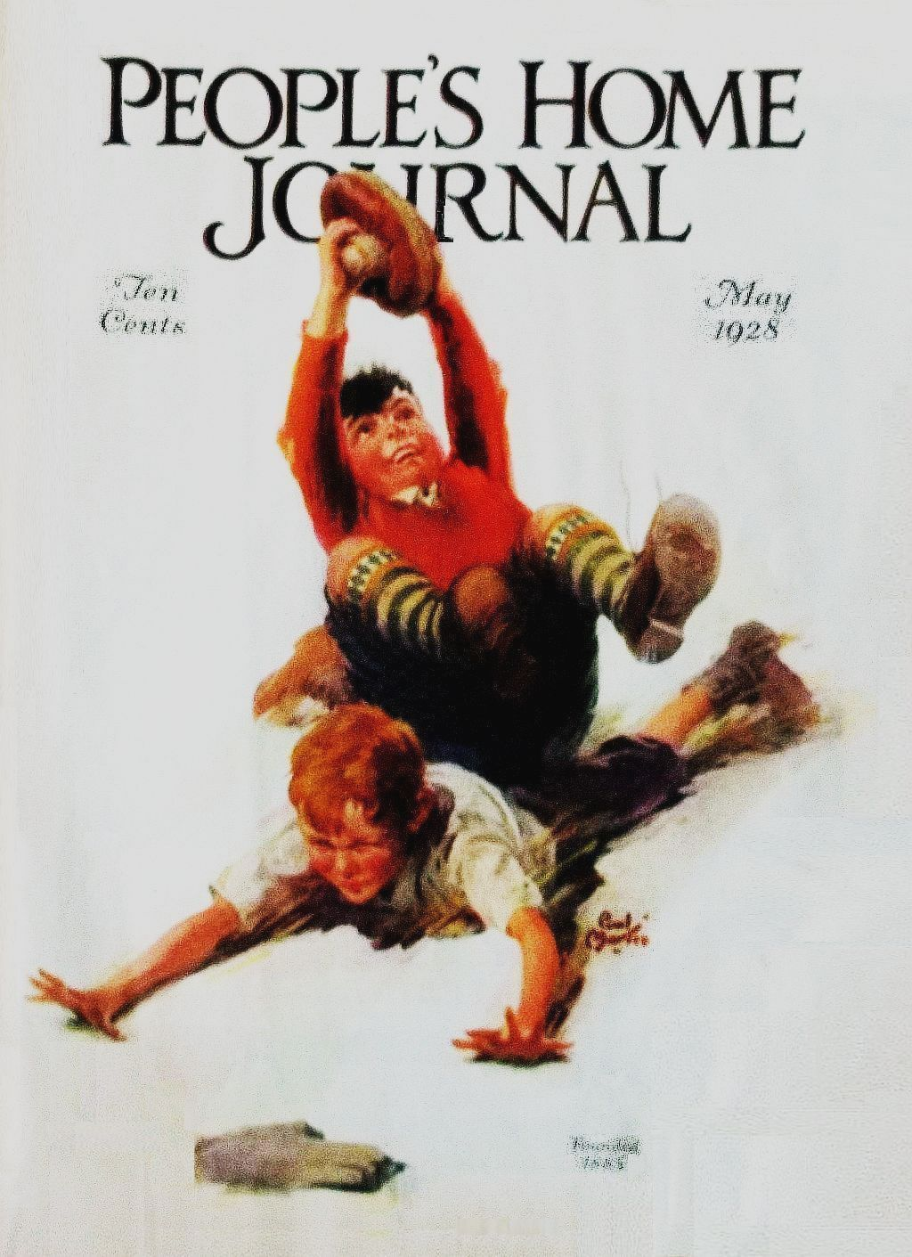 Two boys playing baseball. Home plate action.